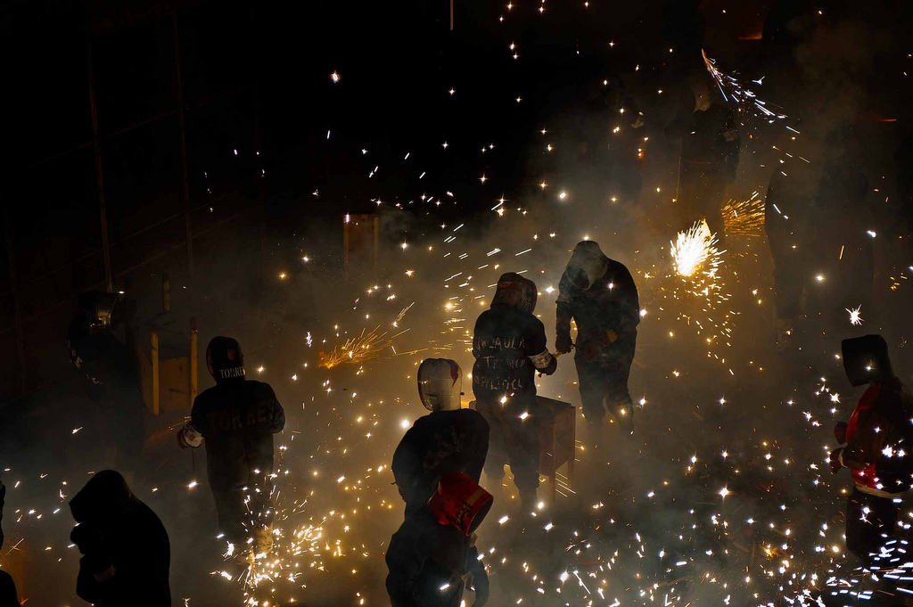 The corda of Paterna, Valencia, Spain, August 31, 2009